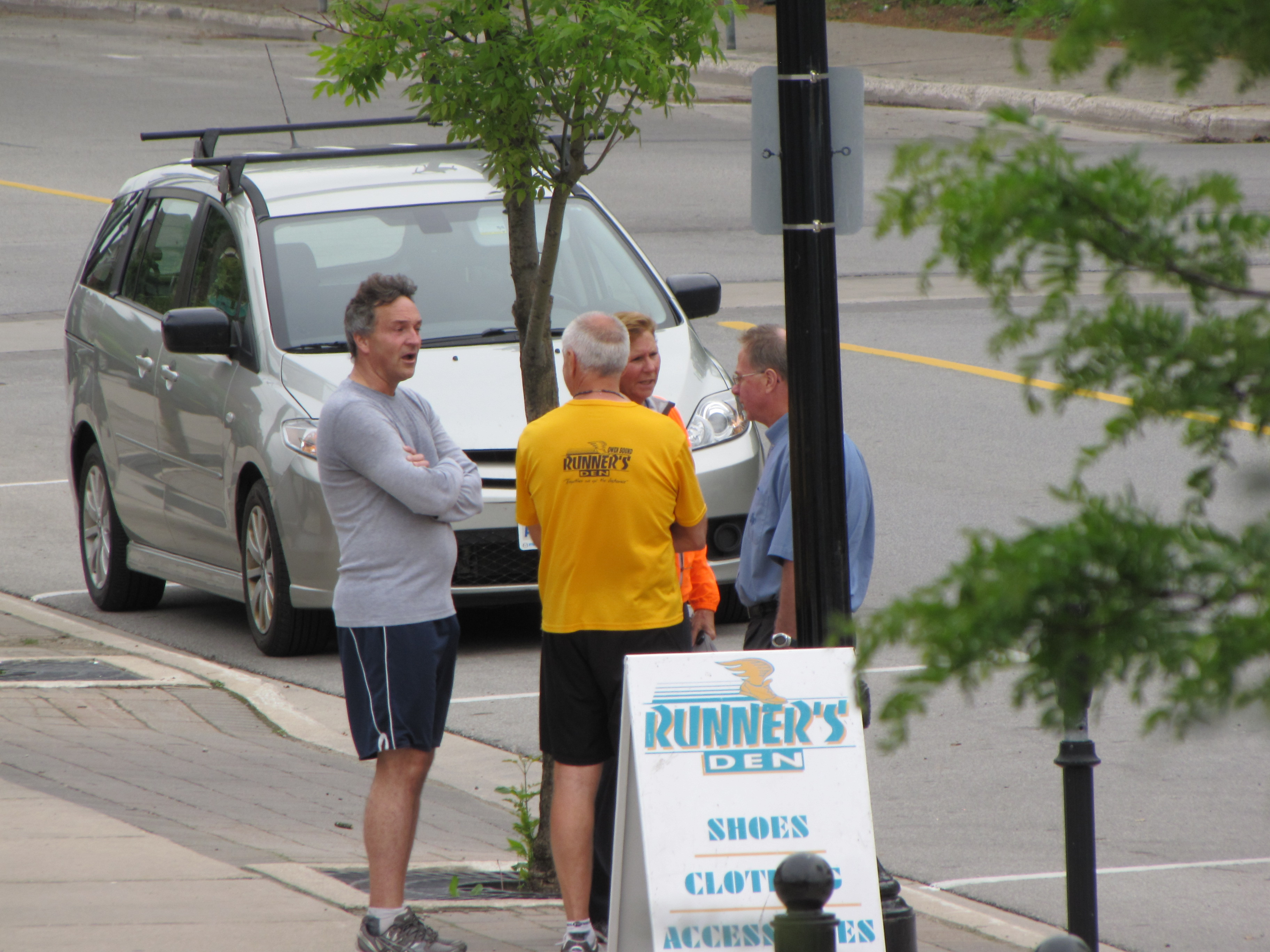 People engaging in casual conversation on a sidewalk in Owen Sound, Ontario, Canada.